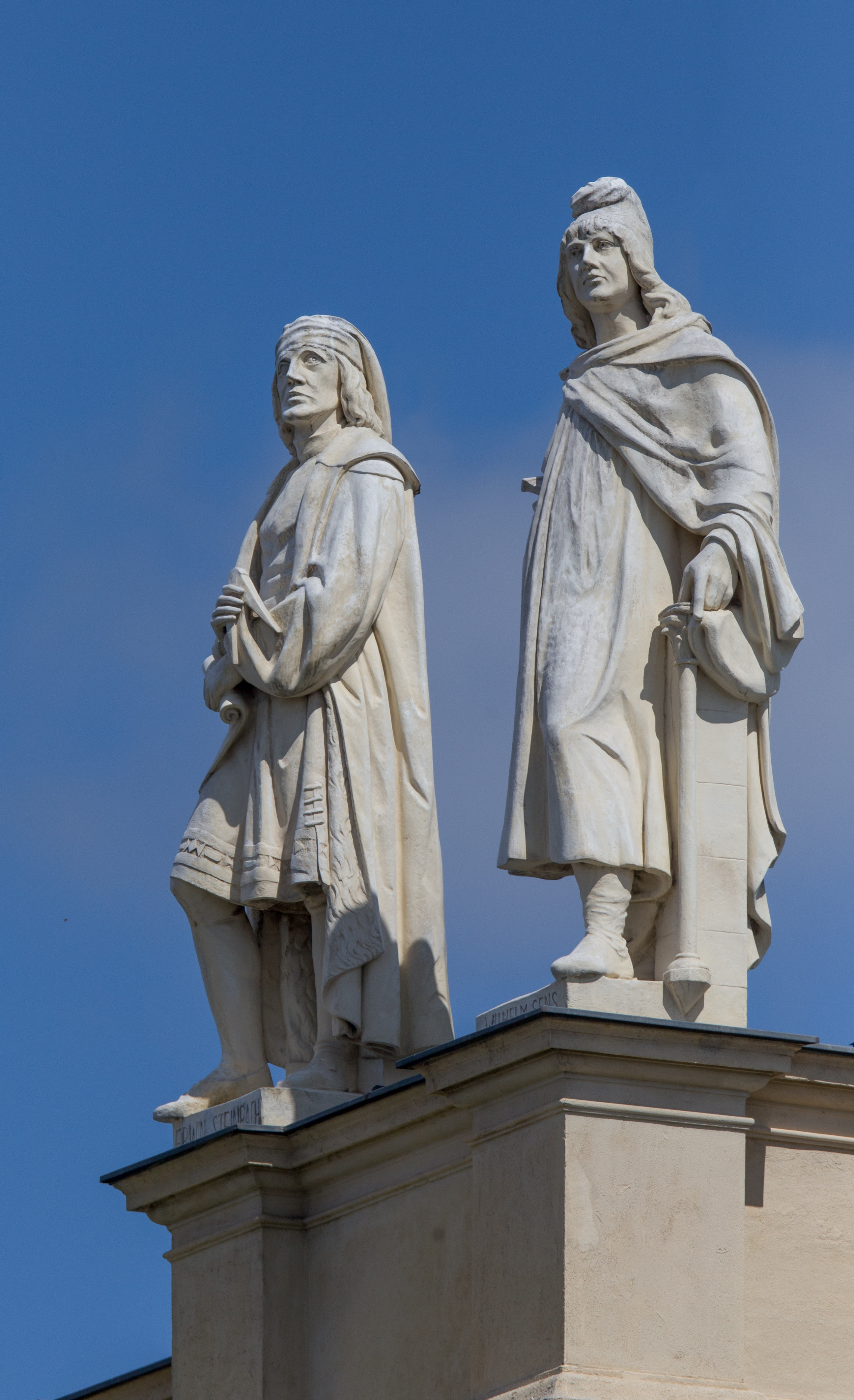 Kunsthistorisches Museum in Vienna Figures on the roof, Wilhelm Sens, Erwin von Steinbach The making of this work was supported by Wikimedia Austria. For other files made with the support of Wikimedia Austria, please see the category Supported by Wikimedia Österreich.